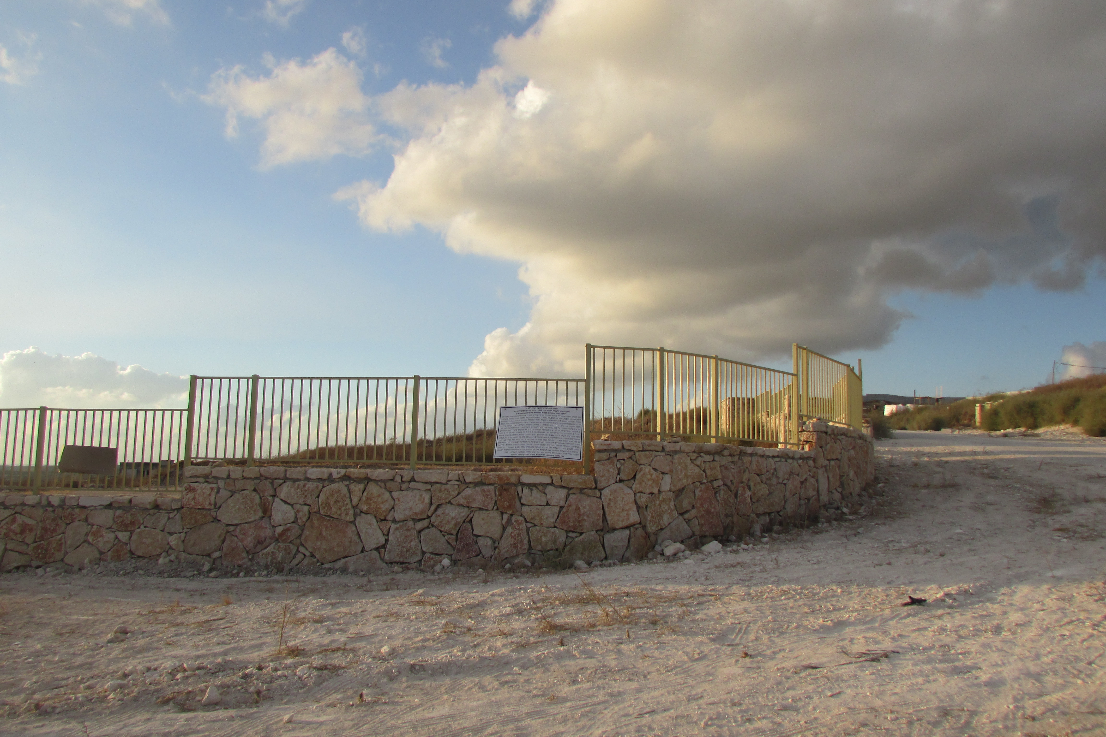 Karmei Katif Notice on change to zoning plan